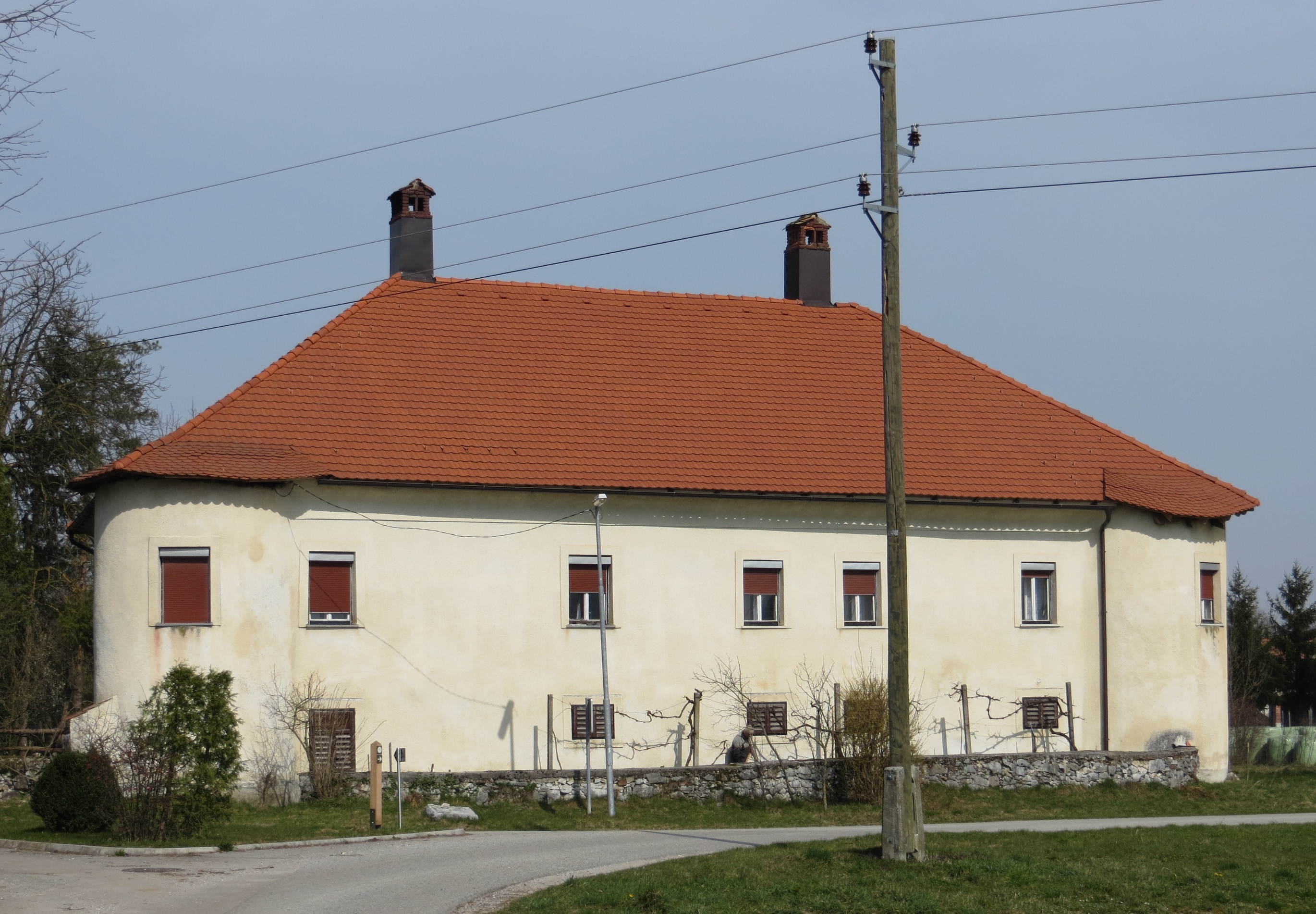 Brest Castle in Brest, Municipality of Ig, Slovenia